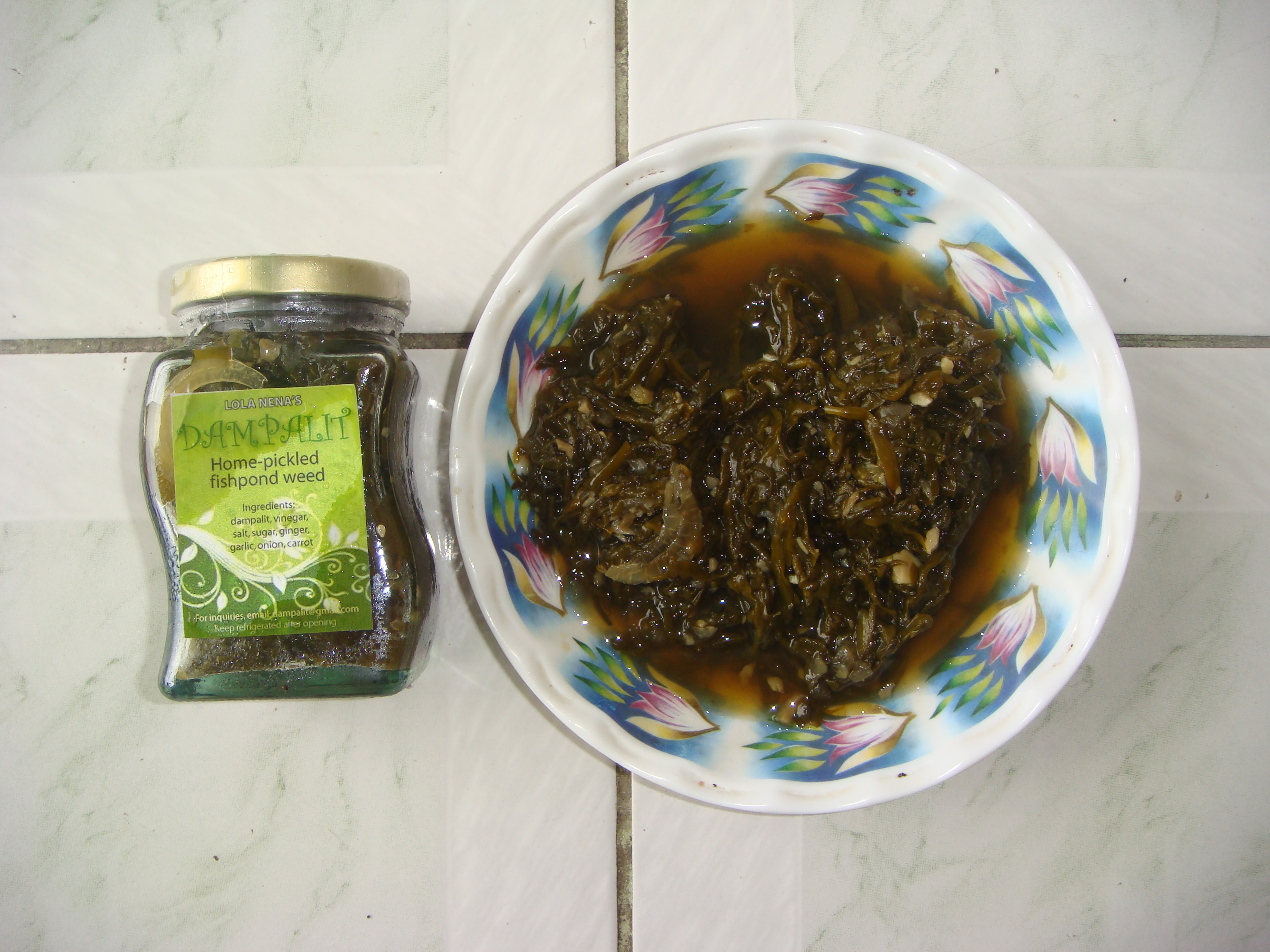 Sesuvium portulacastrum (Tagalog:Dampalit), commonly known as shoreline purslane or (ambiguously) "sea purslane", is a sprawling perennial herb that grows in coastal areas throughout much of the world.